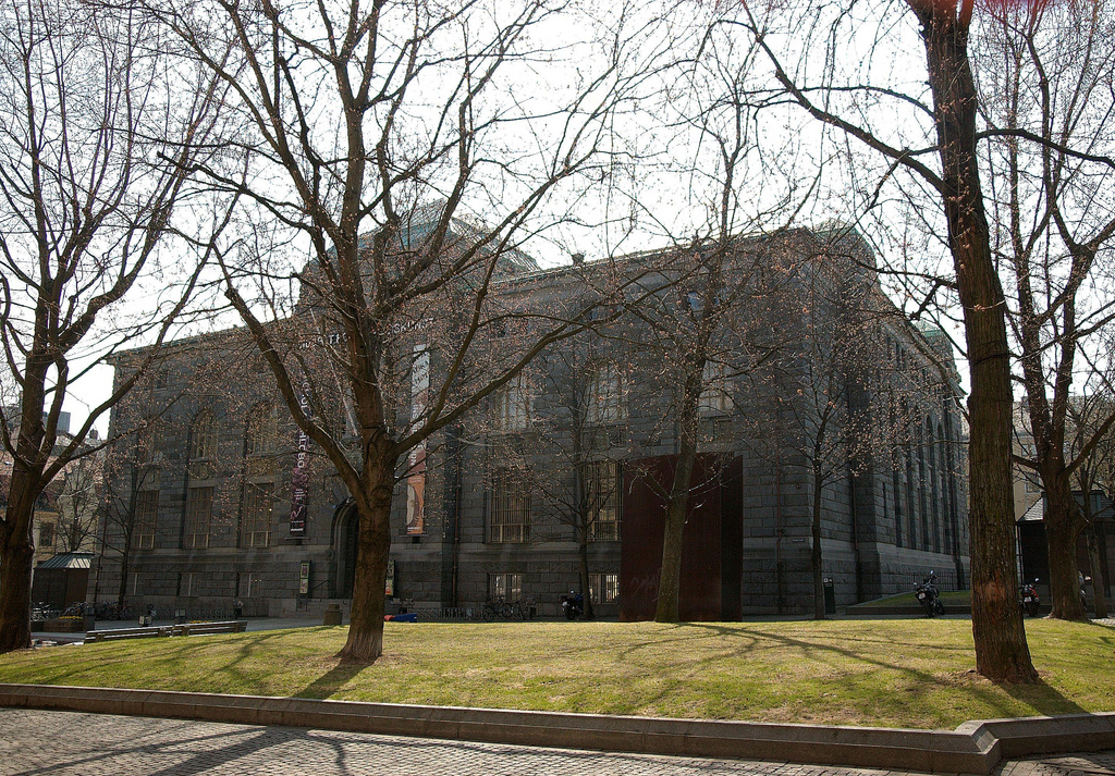 Museet for samtidskunst i Oslo, tidligere Norges Bank. Oppført i tidsrommet 1901-06. Arkitekt Ingvar Hjorth (1862-1927). ¤ Museum of Contemporary Art in Oslo. The building served as head office of Norges Bank (central bank of Norway) until 2007. Architect Ingvar Hjorth (1862-1927).